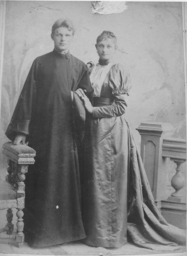 Alexiy Sibirsky